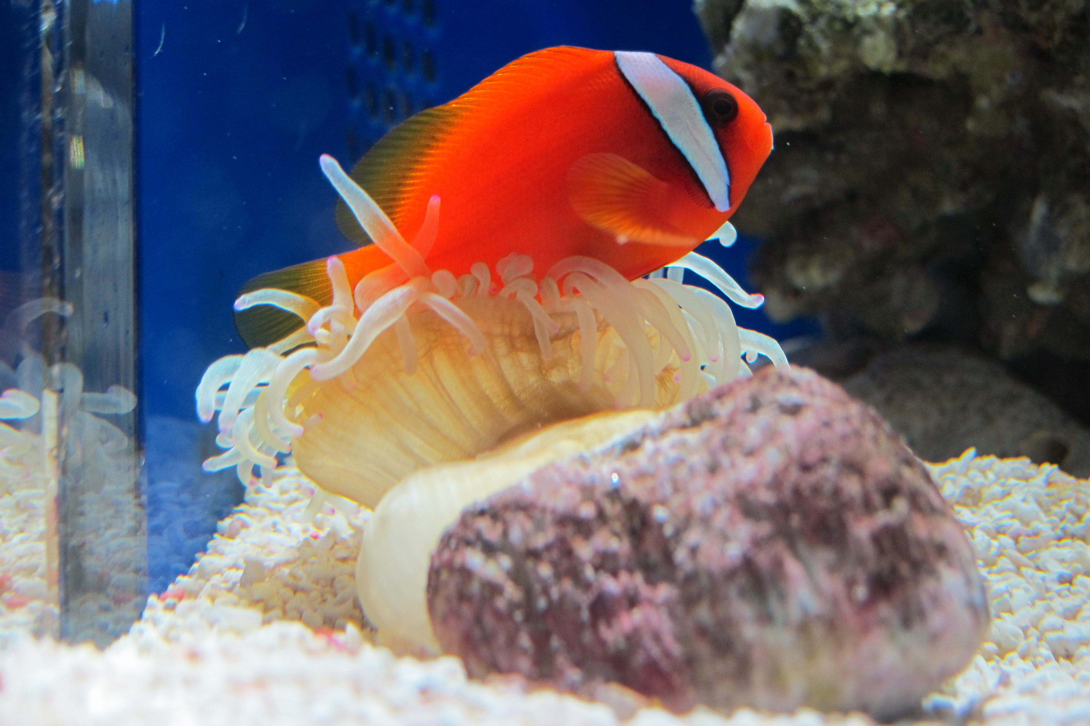 Kyoto Aquarium (京都水族館), Kyoto, Kyoto prefecture, Japan